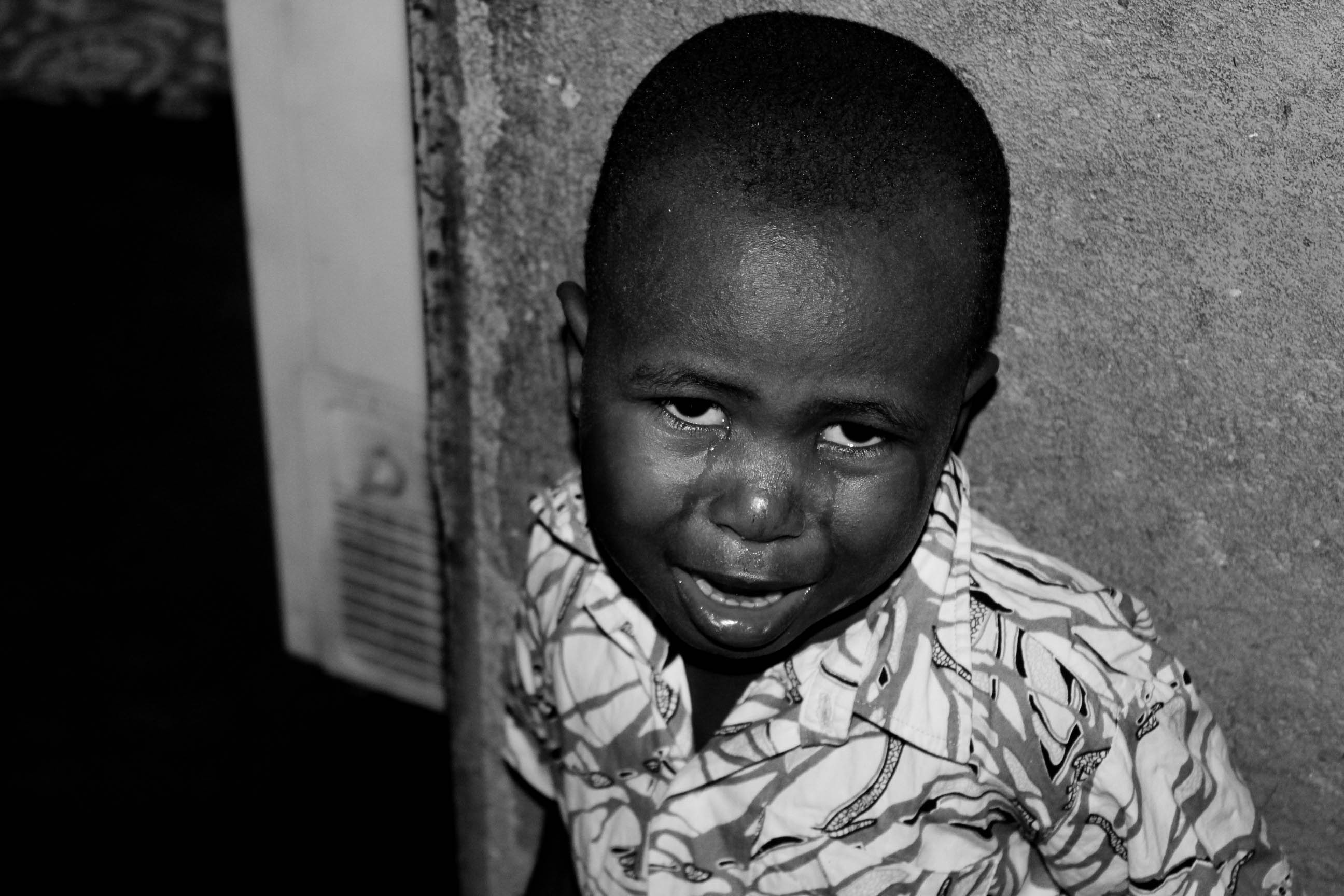 moment of saddes This is an image of Cultural Fashion or Adornment from Tanzania